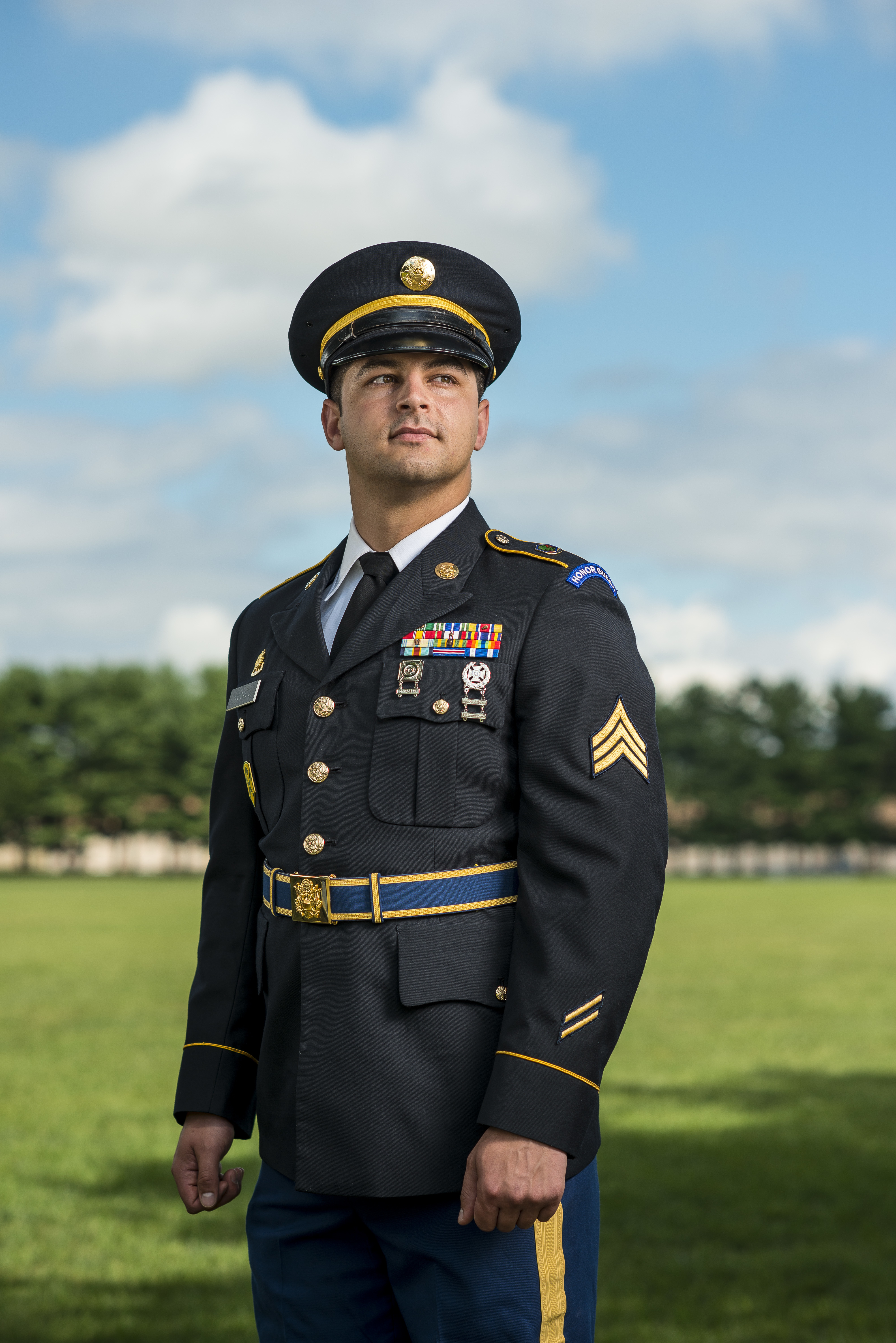 Sgt. Artem McCall, a U.S. Army Reserve motor transport operator Soldier with the 415th Chemical Biological Radiological and Nuclear Brigade, of Greenville, South Carolina, participates in a promotional photo shoot for Army Reserve recruiting at Joint Base McGuire-Dix-Lakehurst, New Jersey, July 25, 2017. (U.S. Army Reserve photo by Master Sgt. Michel Sauret) Unit: 200th Military Police Command DVIDS Tags: Soldier; grass; uniform; machine guns; rifles; portrait; U.S. Army Reserve; MOS; Soldiers; Army Reserve; pistol; weapons; Joint Base McGuire-Dix-Lakehurst; Military Police; blue sky; military occupational specialty; lethality; ASU; OCP; Army Service Uniform; combat uniform; Operational Combat Pattern Uniform; green grass